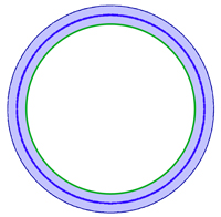 Inferior semi-continuity of the function art-length (2).